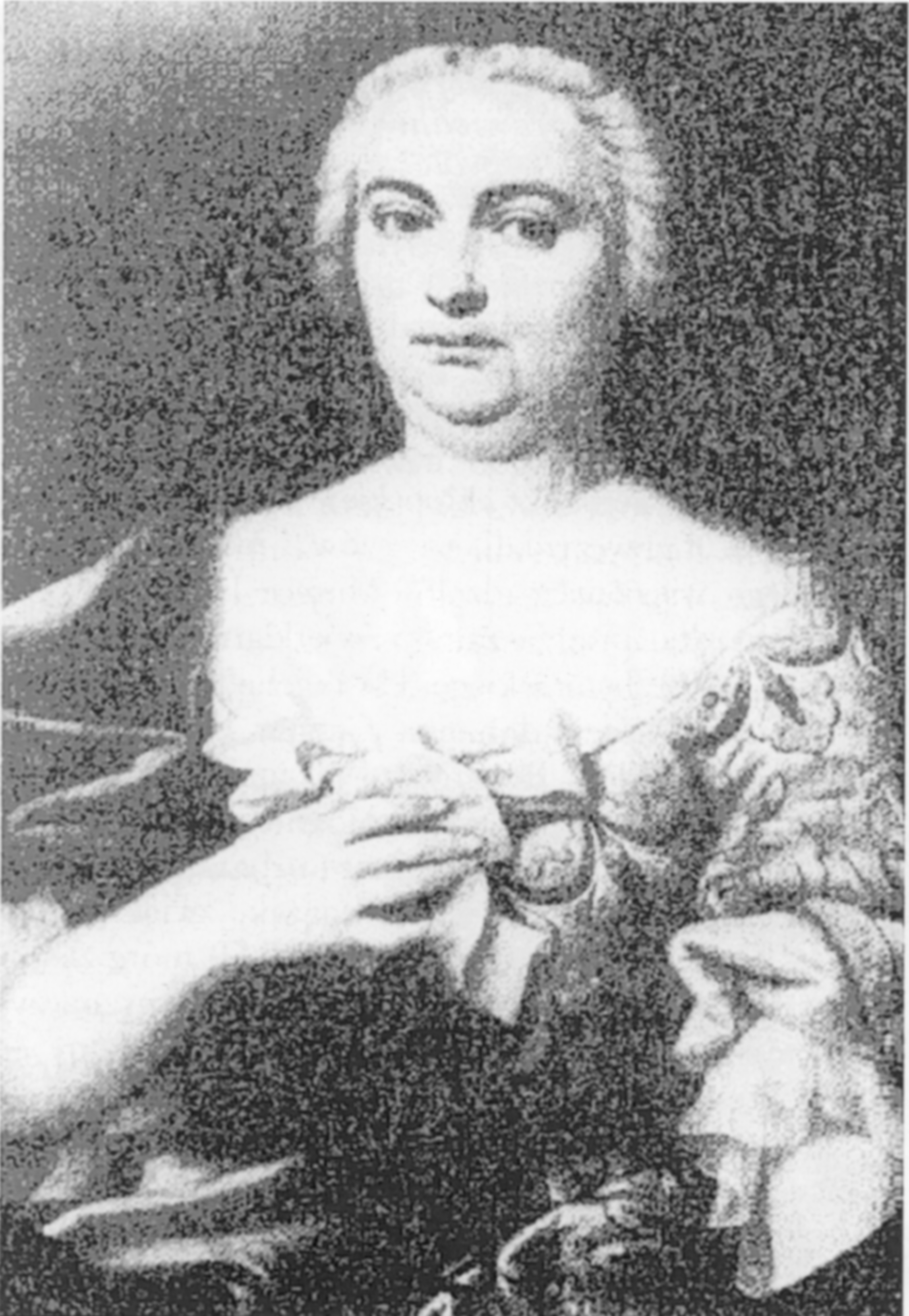 Maria Josepha (née Brunetti) Henckel von Donnersmarck, wife of Carl Joseph Erdmann Henckel von Donnersmarck (1695–1760).